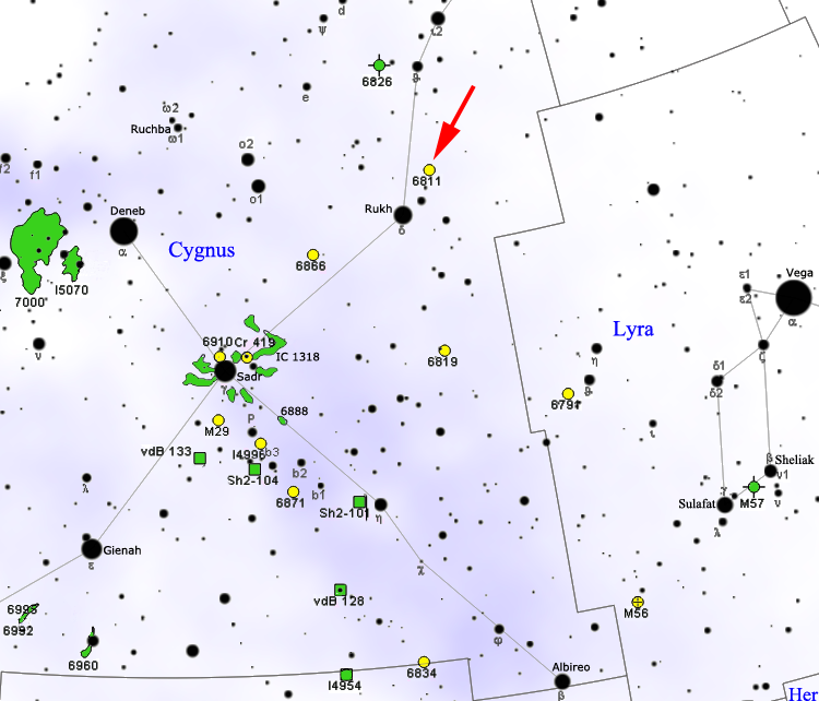 Map of NGC 6811